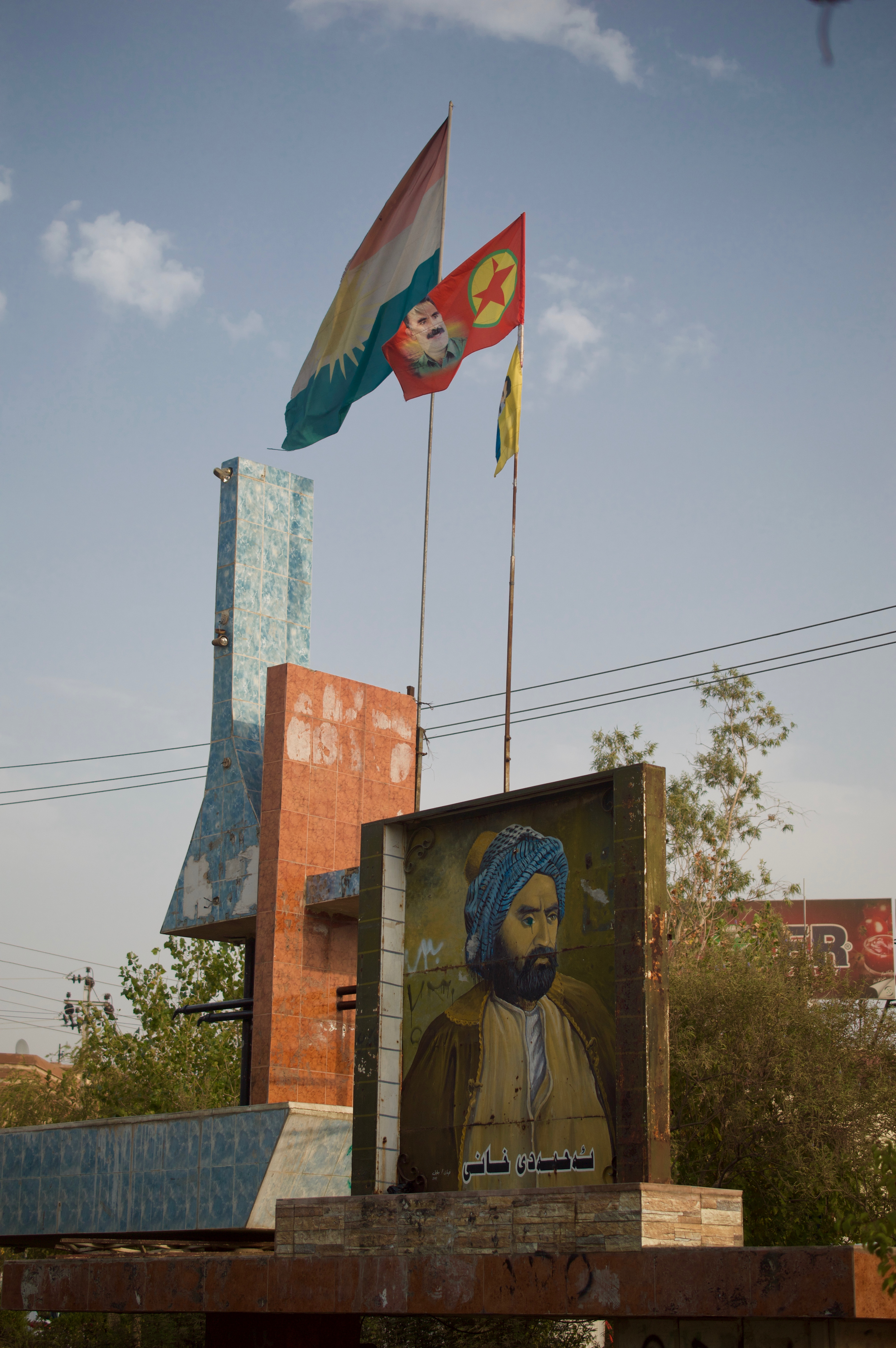 PKK flag and Kurdistan Regional Government flags flying over Kirkuk in the Kurdish-majority Rahim Awa neighbourhood.